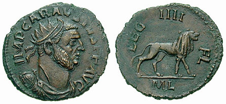 Carausius. 286-293 AD. Æ Antoninianus (2.99 gm).IMP CARAVSIVS P F AVG, radiate, draped and cuirassed bust rightLEG IIII FL, lion walking right; ML.RIC V pt. 2, 69 var. (legend).